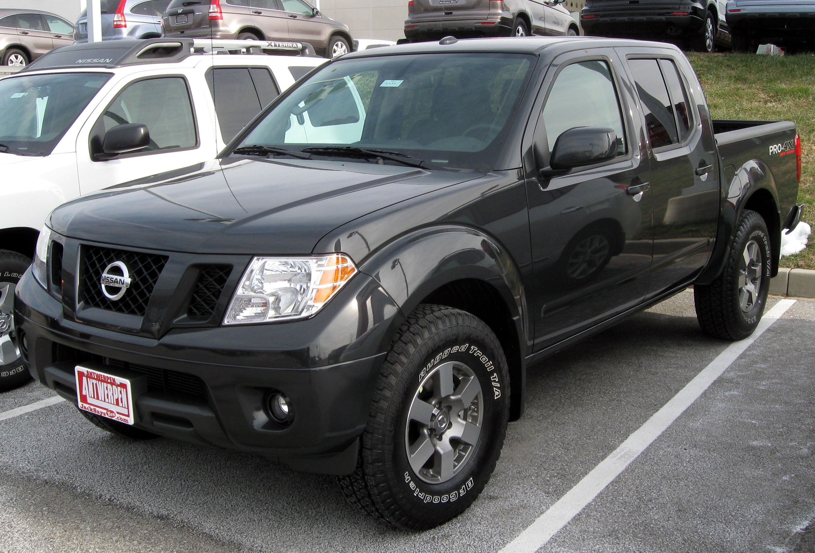 2011 Nissan Frontier photographed in Clarksville, Maryland, USA.